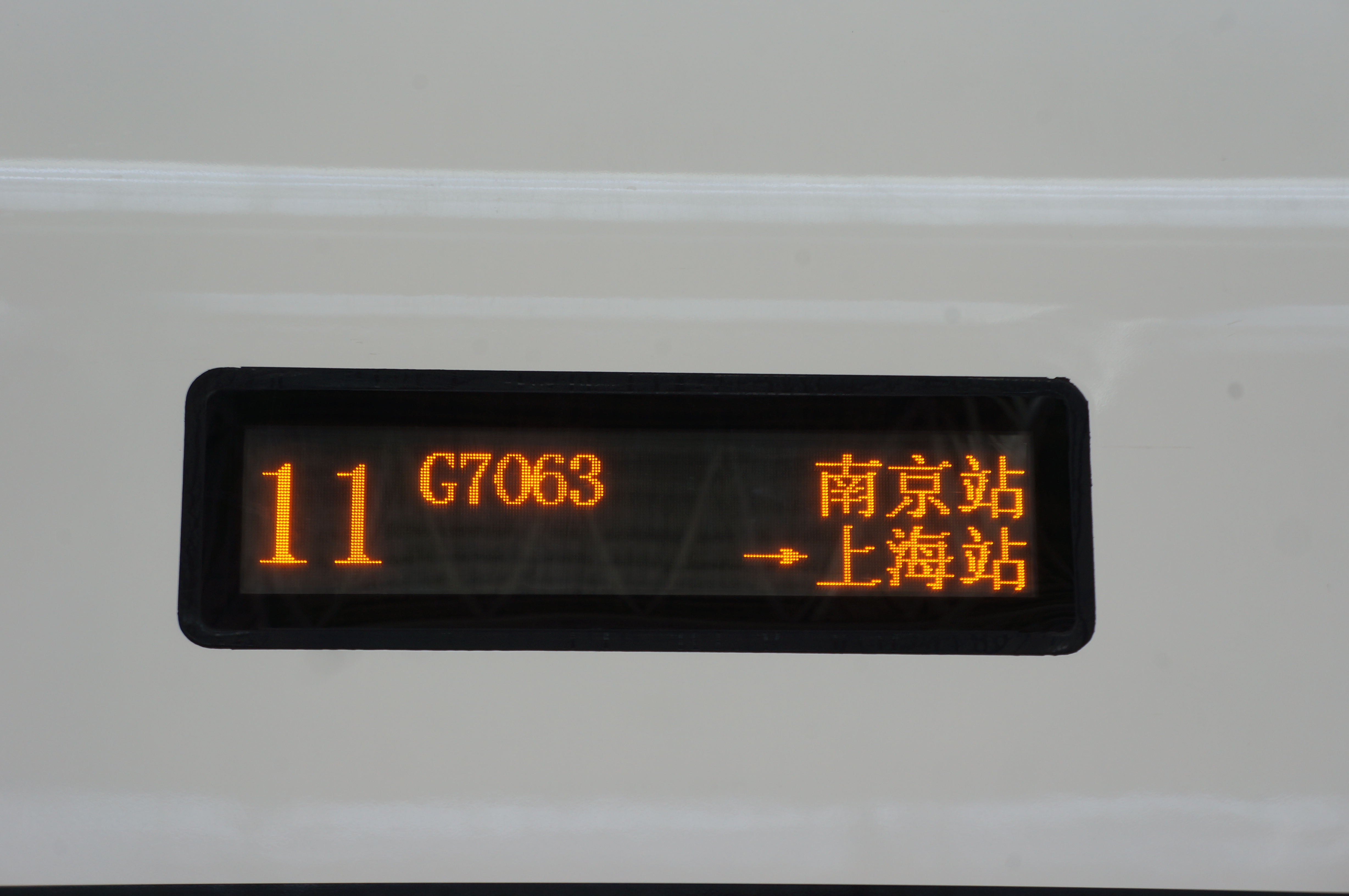 G7063 infoboard in 201806